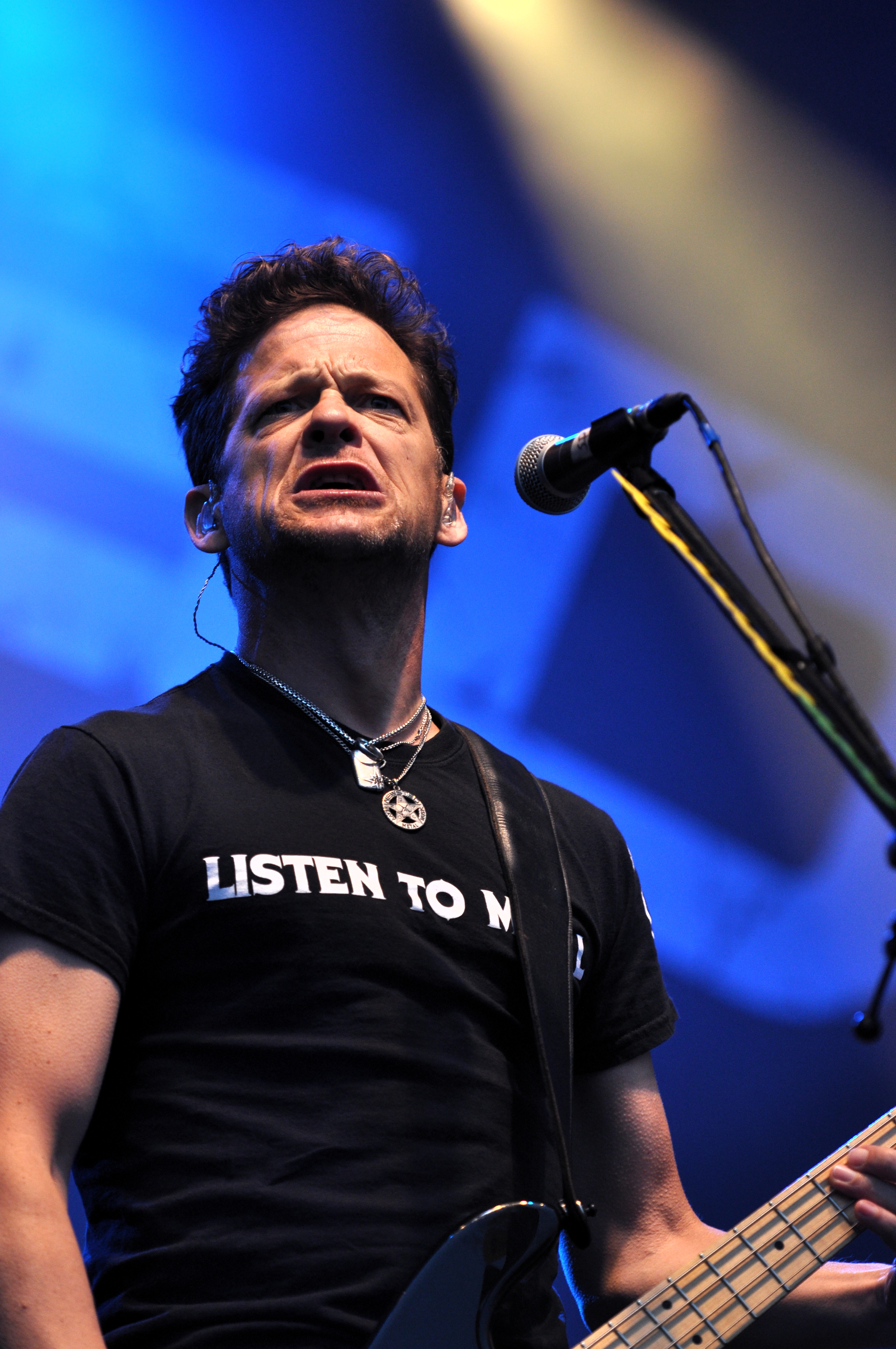 Jason Newsted with his Band Newsted at Rock am Ring 2013